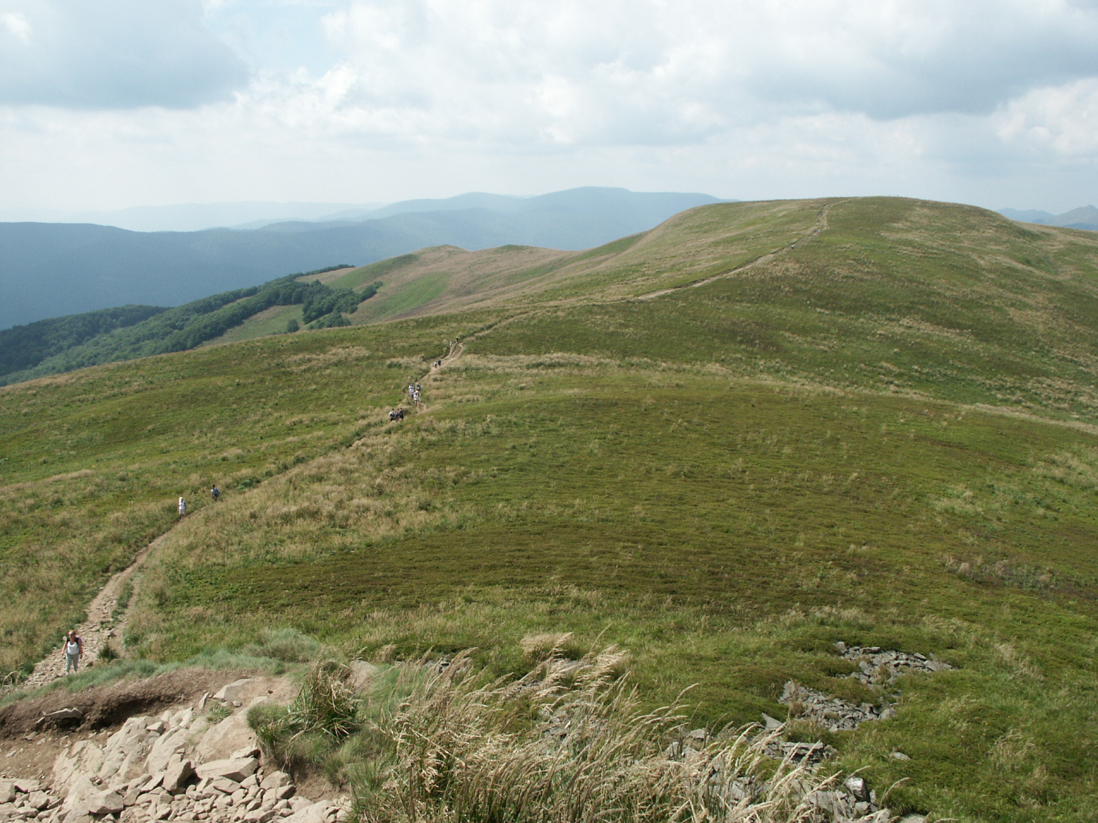 Polish Bieszczady mountains - a połonina (typical meadow) of Szeroki Wierch, 2004.